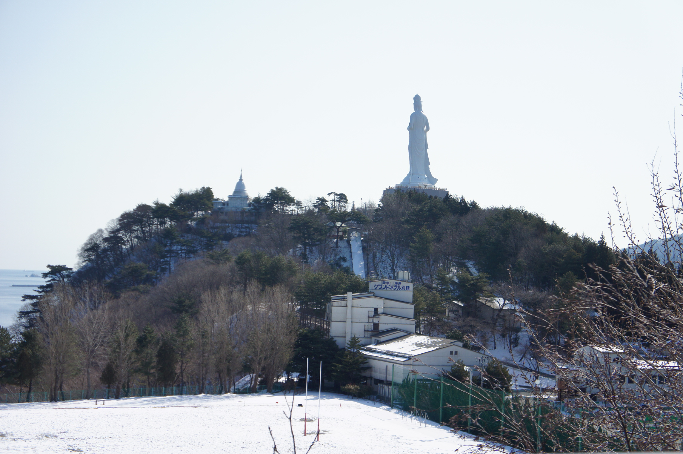 In Kamaishi, Iwate pref Japan. Height : 48.5m.